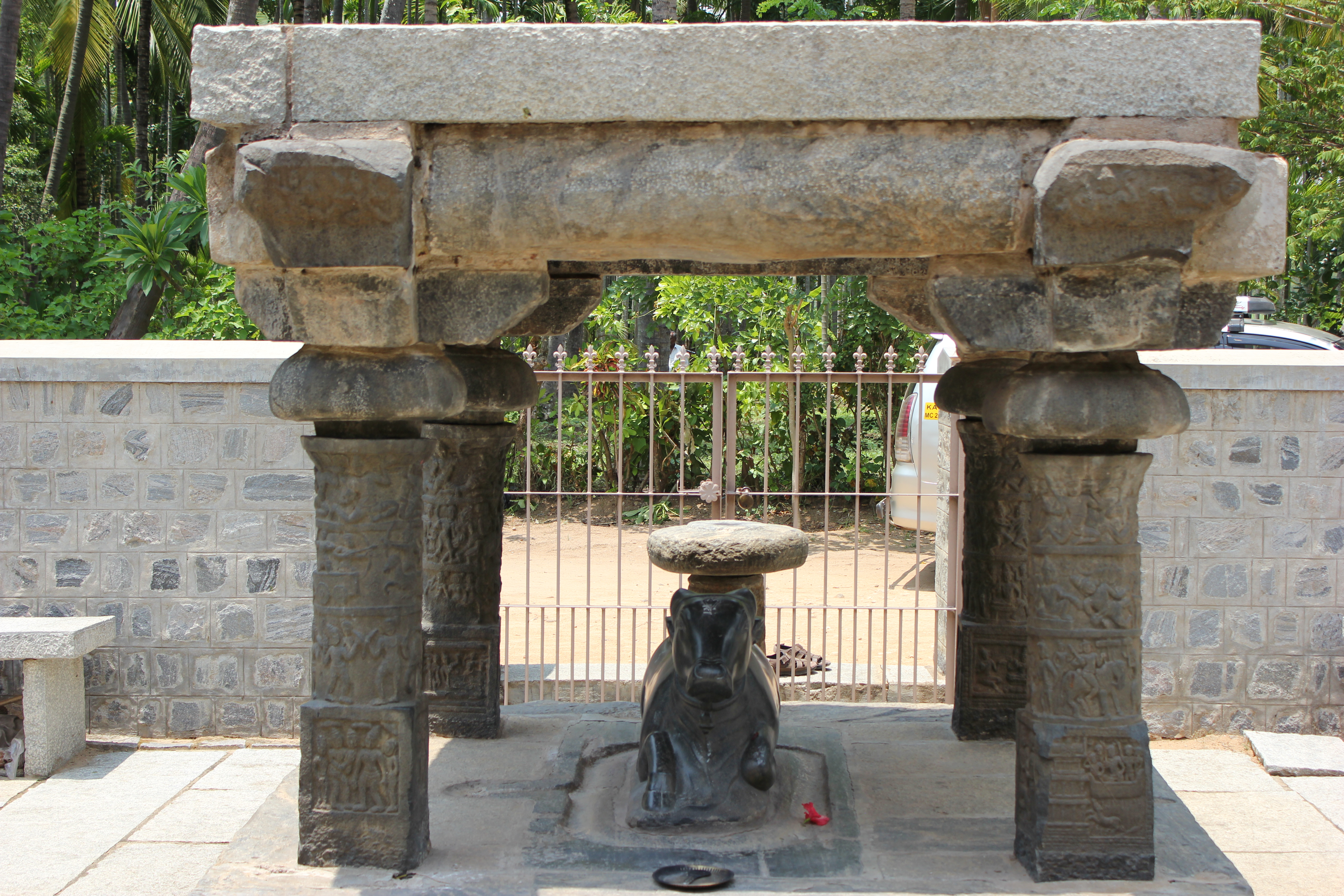 This image was taken by self (Dinesh Kannambadi) at the Arakeshwara temple (also spelt Arakeshvara or Arakesvara) in Hole Alur, Chamarajanagar district, Karnataka state, India. The temple was built by Butuga II (A.D. 939-960) of the Western Ganga dynasty (a Rashtrakuta empire vassal) as a fitting finale to his victory over the Cholas of Tanjore at the battle of Takkolam